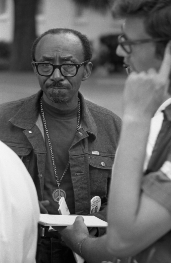 Reverend C.K. Steele at the Florida Capitol for silent vigil supporting government aid to the poor.